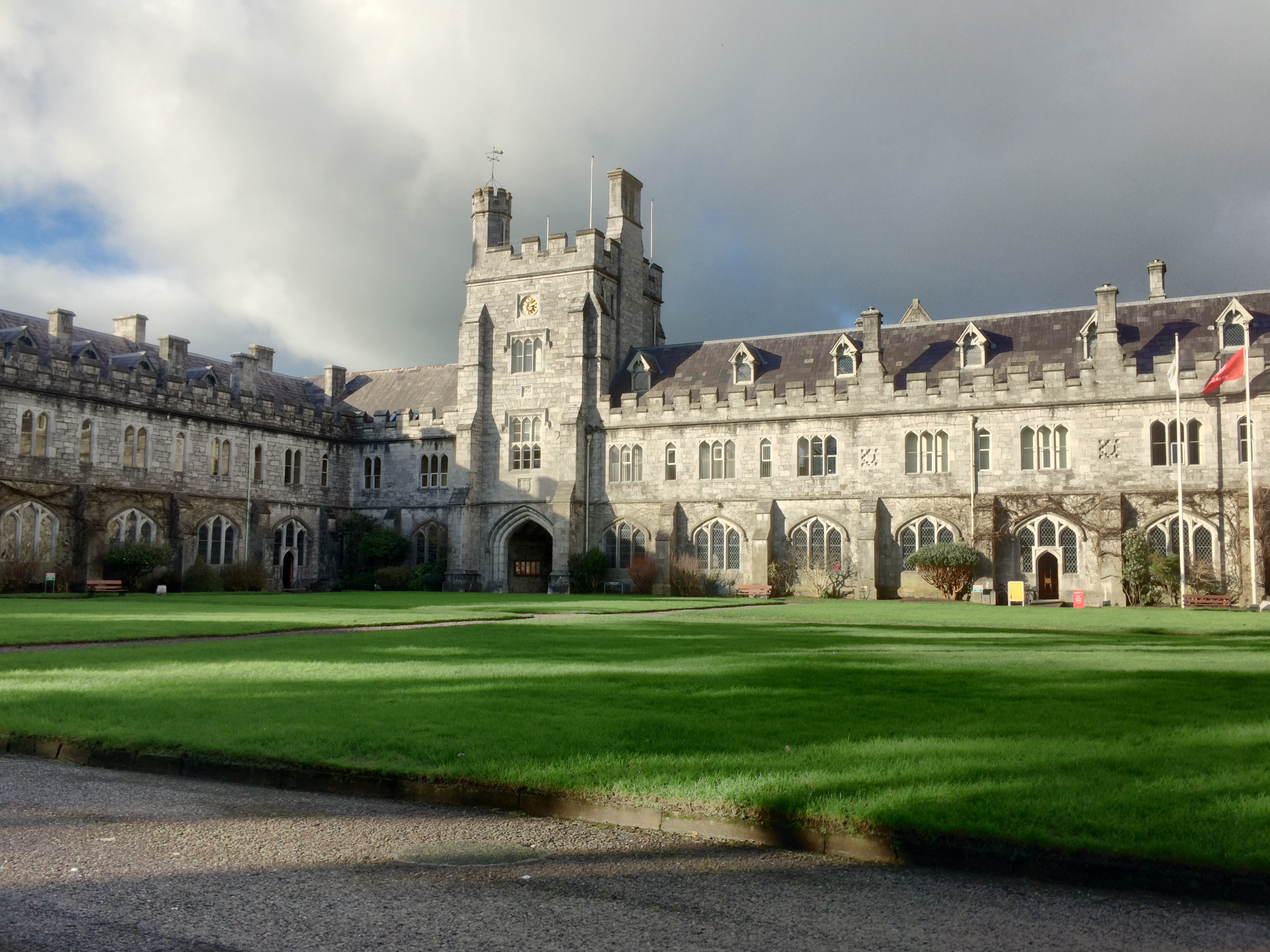 County Cork, University College Cork.